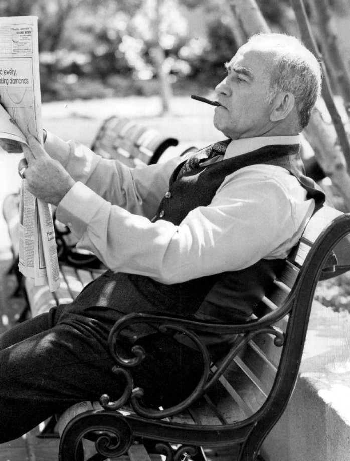 Publicity photo of Ed Asner from Lou Grant.